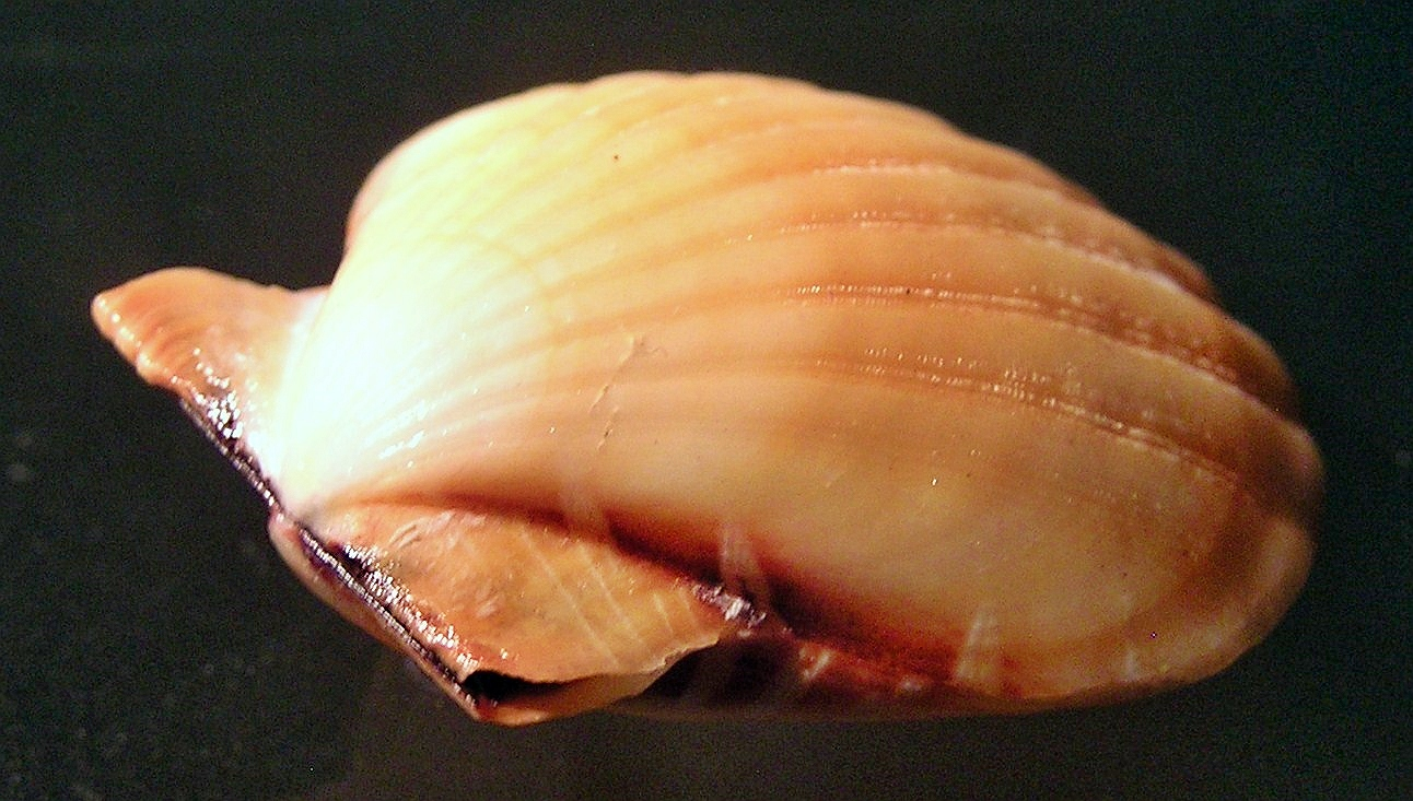 Semipallium fulvicostatum (Adams & Reeve, 1850) , family Pectinidae; South Chine Sea